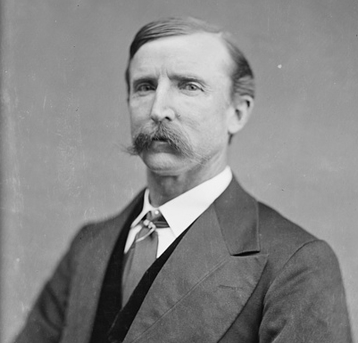 Kentucky Congressman John W. Caldwell